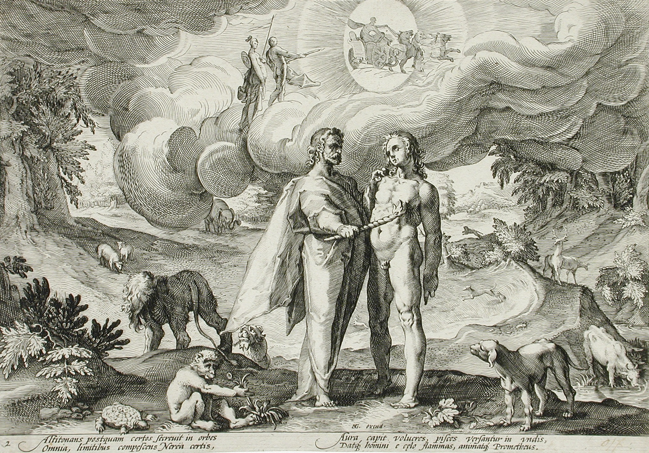 Holland, published 1589 Book: Metamorphoses by Ovid, plate 2 Prints; engravings Engraving Graphic Arts Council Curatorial Discretionary Fund (M.71.76.2) Prints and Drawings